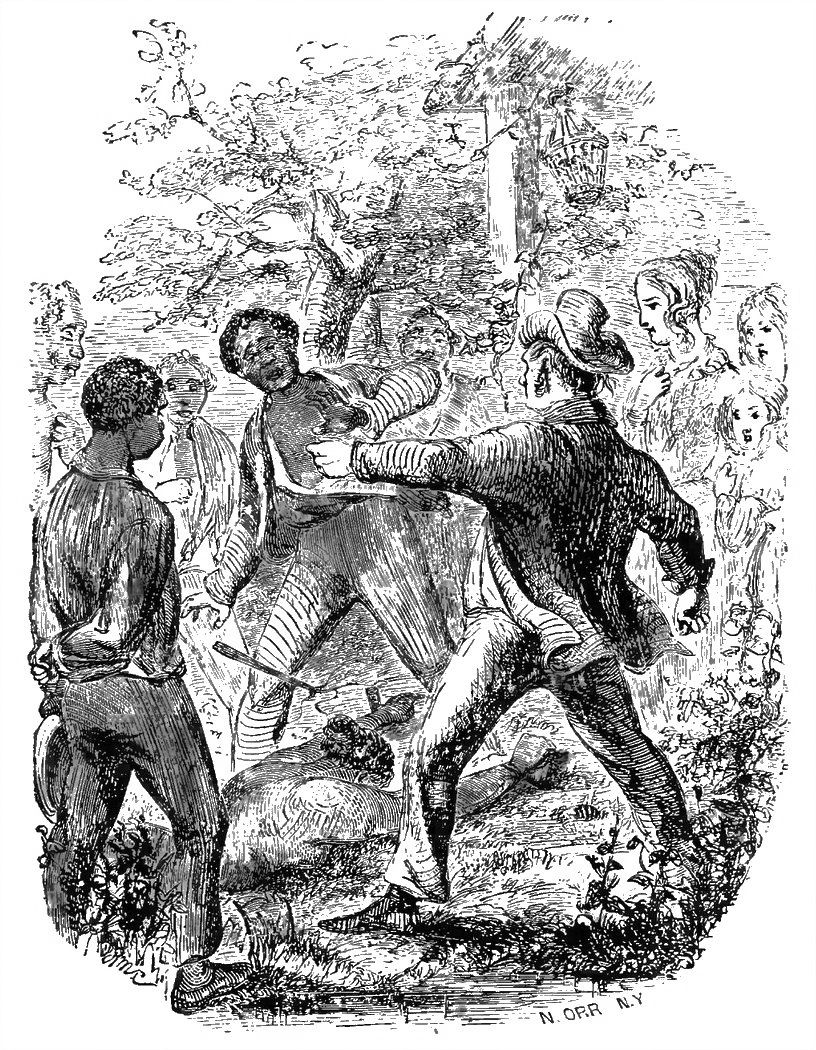 Scan from book Twelve Years a Slave